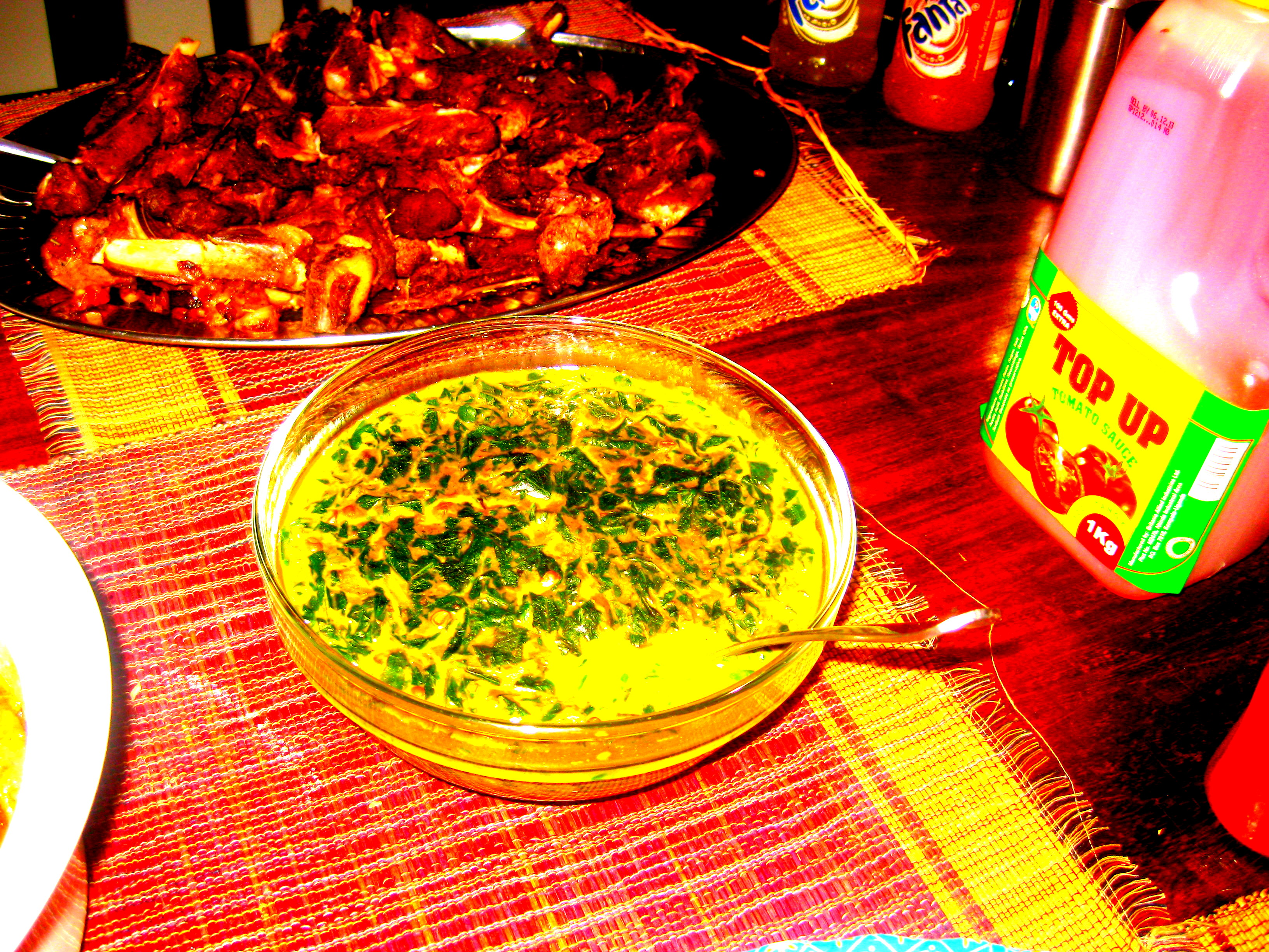 This is an image of food from Uganda